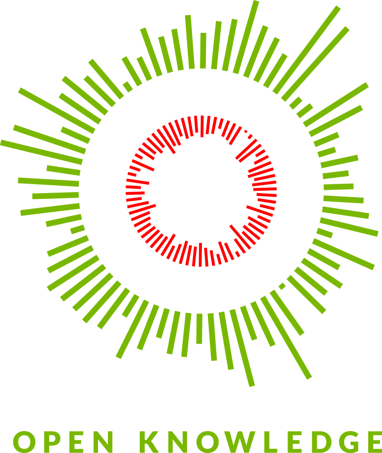 Logo of Open Knowledge, 2014-on